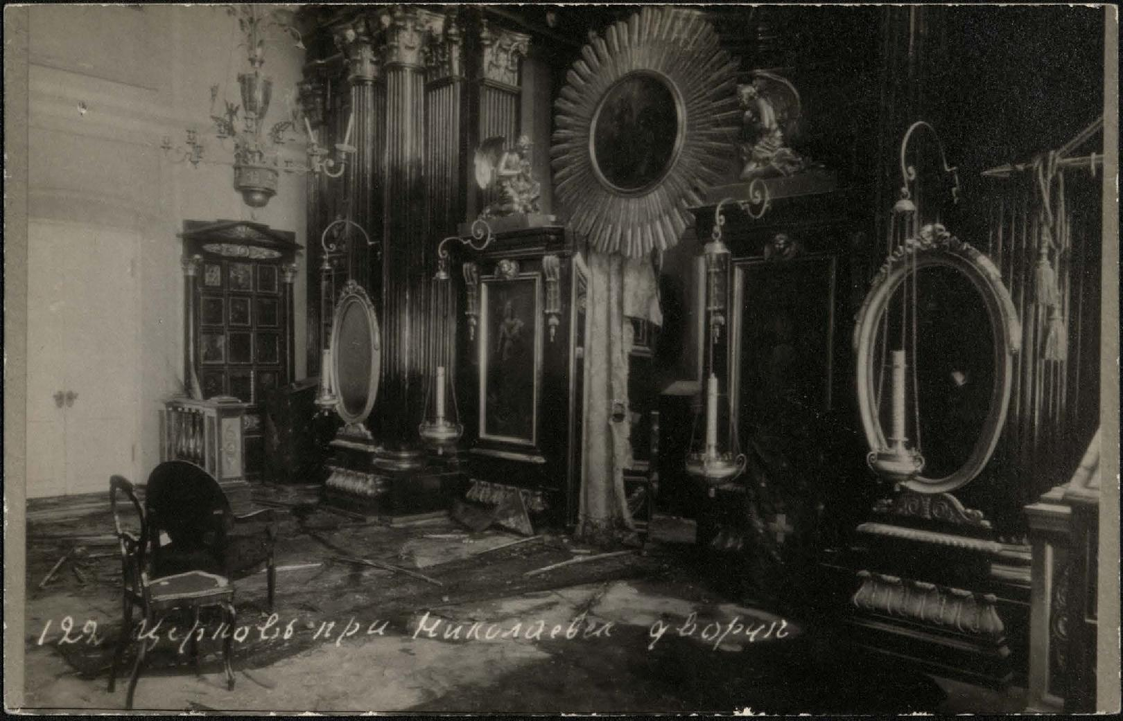 Church of St. Petr and Pavel damaged during the Russian Revolution, 1917.